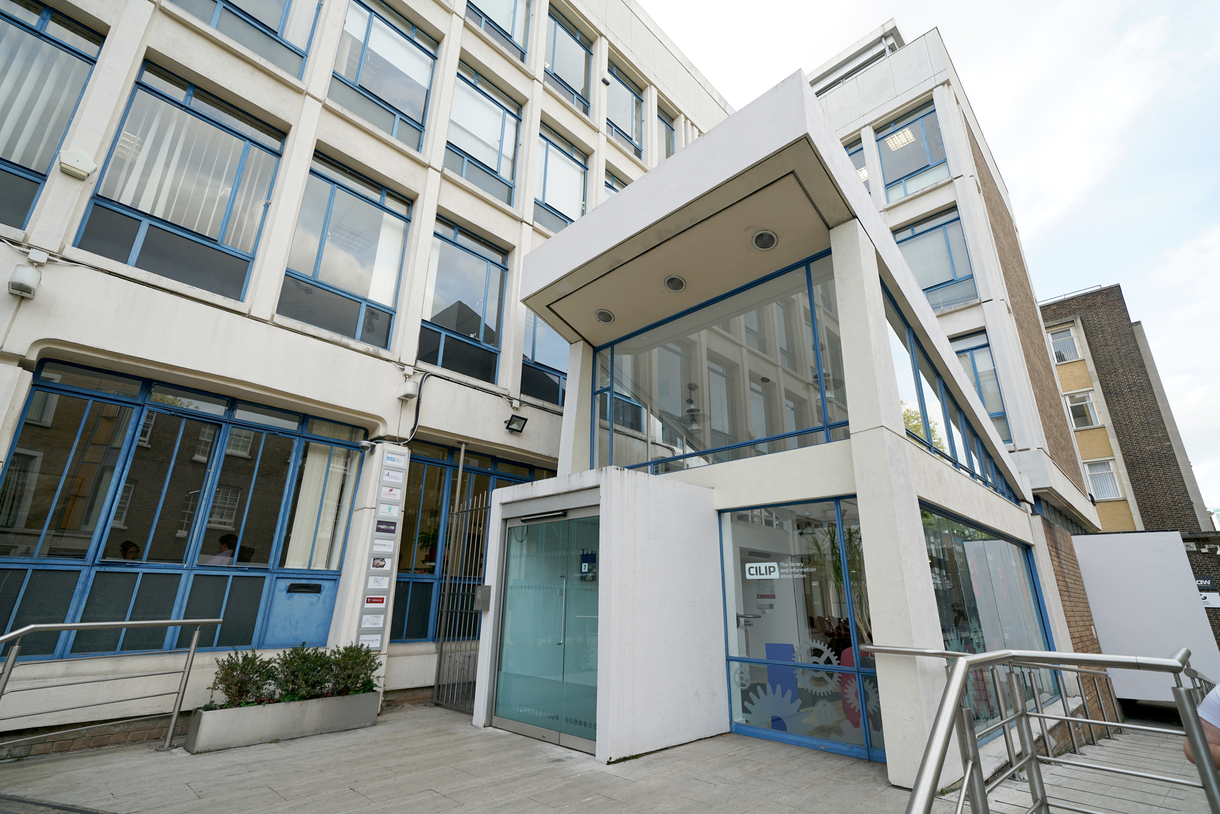 The exterior of the head office of CILIP (Chartered Institute of Library and Information Professionals) at 7 Ridgmount Street in London, England.